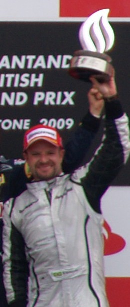 Rubens Barrichello at the podium of the 2009 British Grand Prix